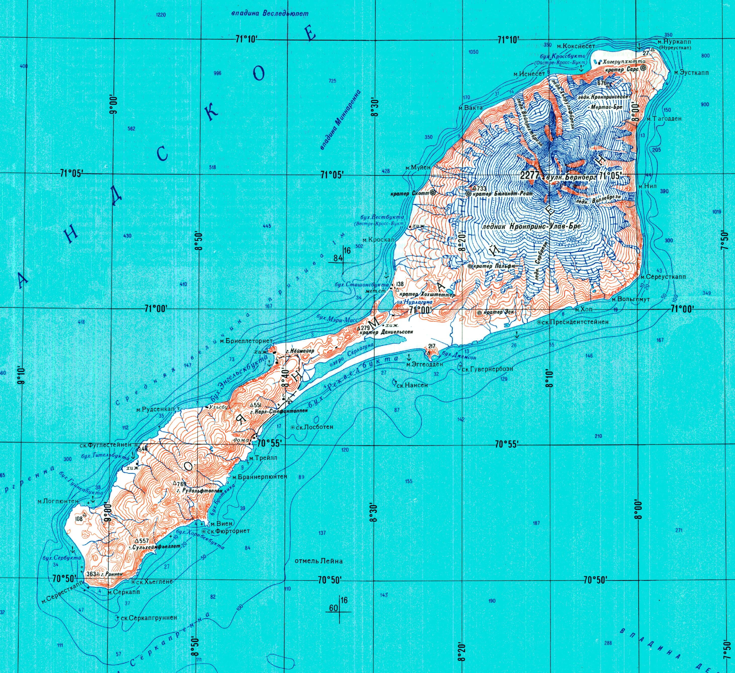 sheet R-29-IX,X,XI of Soviet Genshtab maps, scale 1:200K, edition 1967, cropped